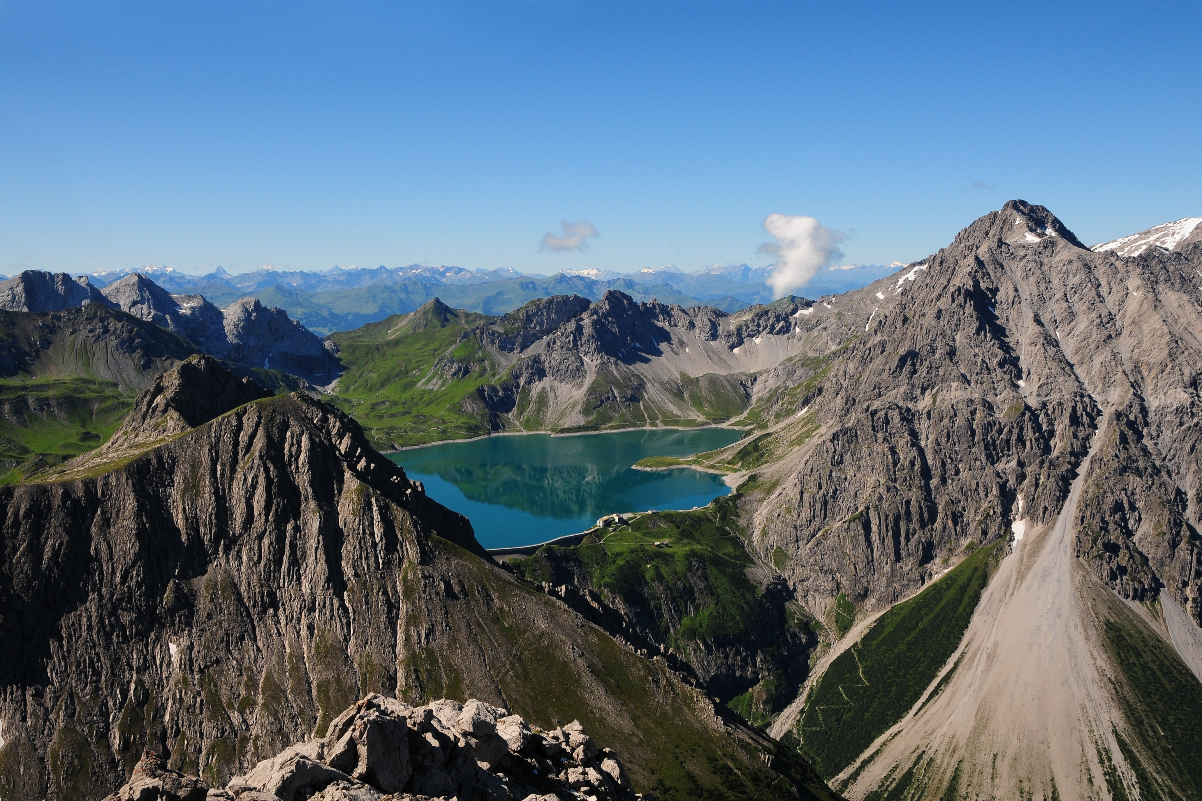 The Lüner Lake, seen from Mt. Saulakopf (2,517 m) in Austria. Left is Mt. Schafgafall (2,414 m) and right Mt. Seekopf (2.698 m). Behind the lake are Mt. Kanzelköpfe (2,437 m) and Mt. Girenspitze (2,394 m) in Switzerland.